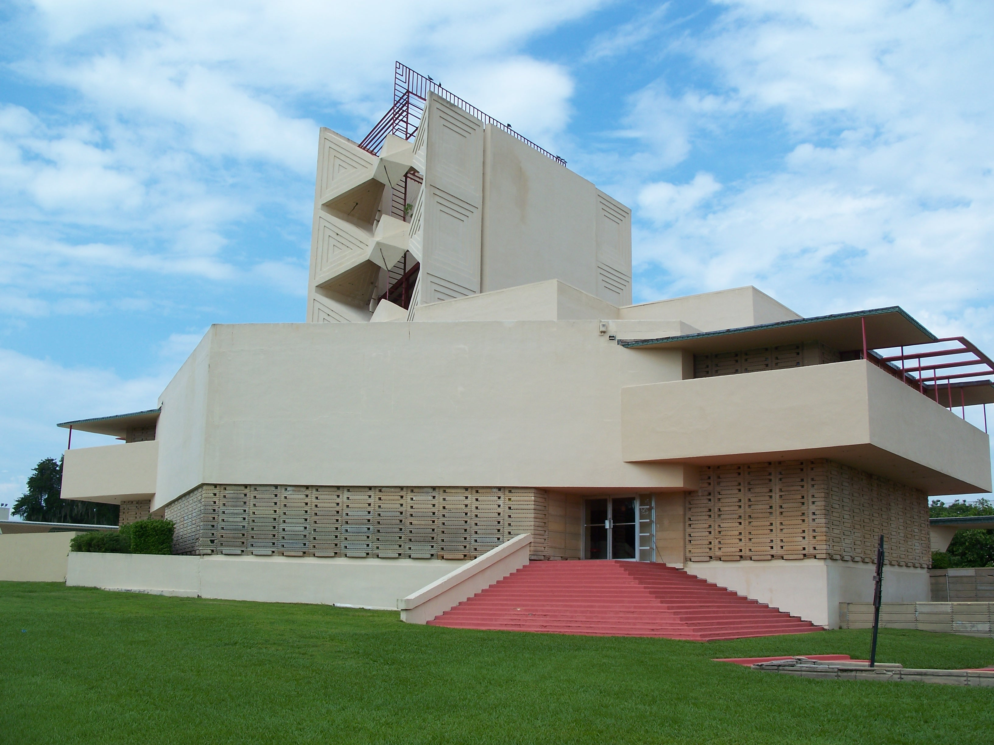 Lakeland: Florida Southern College: Child of the Sun: Annie Pfeiffer Chapel